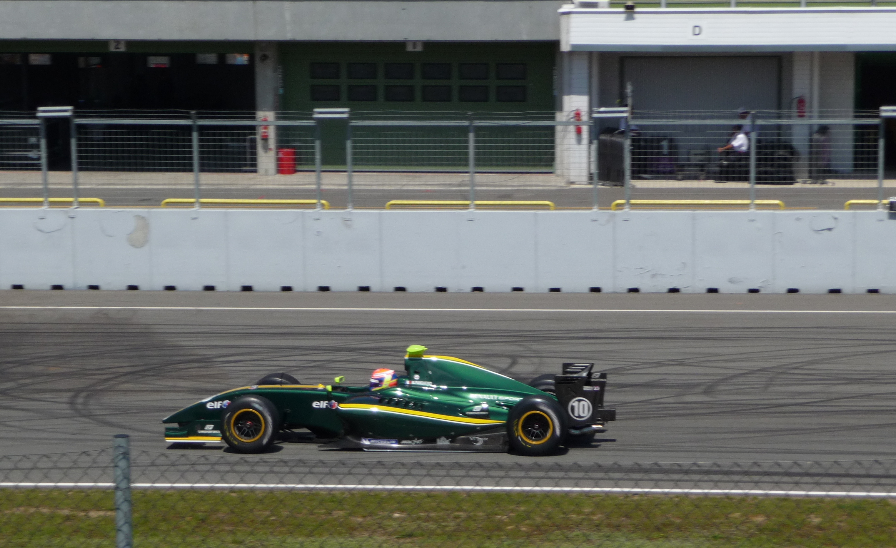 Nelson Panciatici, Formula Renault 3.5 Series, 2nd race, 2010 Brno World Series by Renault -10-5-3-2◄►+2+3+5+10